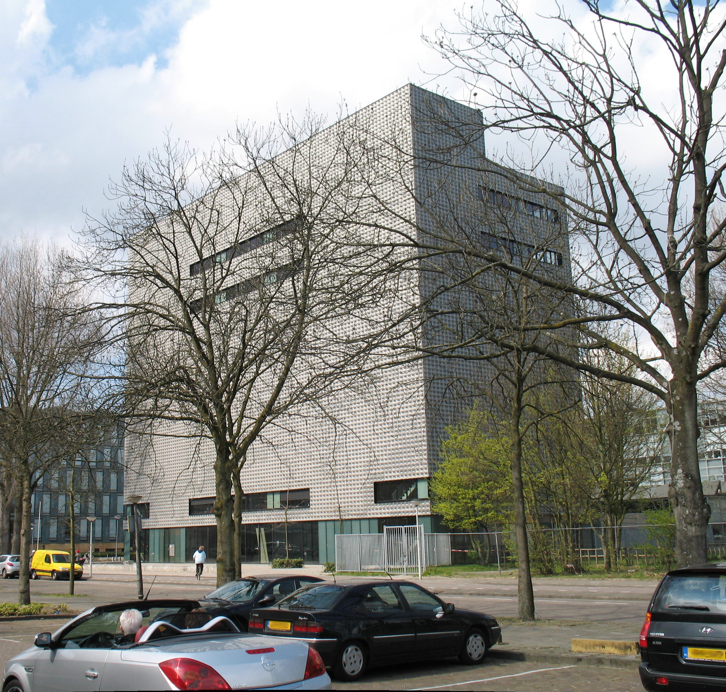 The building of the Sandberg Instituut in Amsterdam